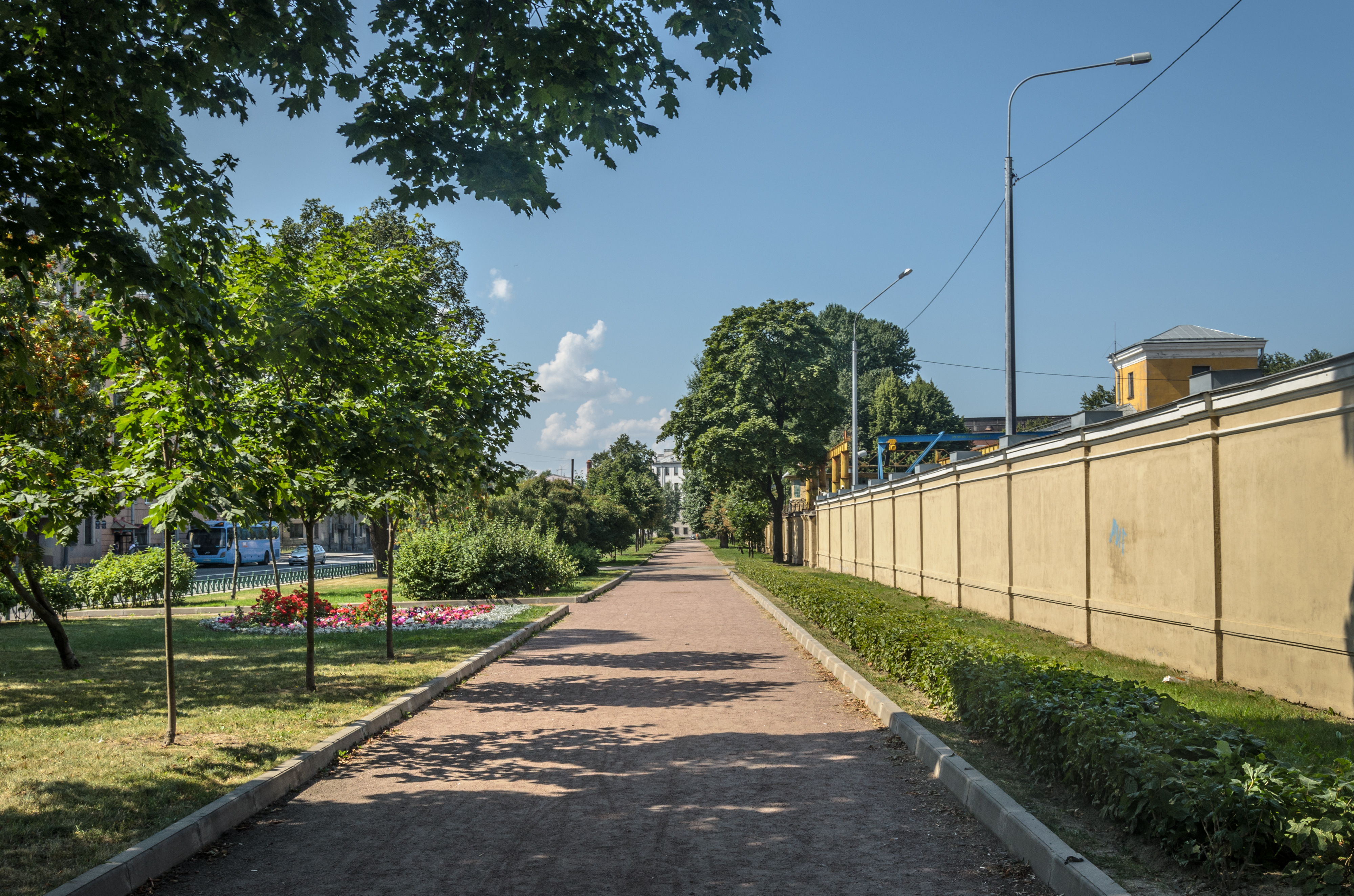 Rizhsky Avenue in Saint Petersburg